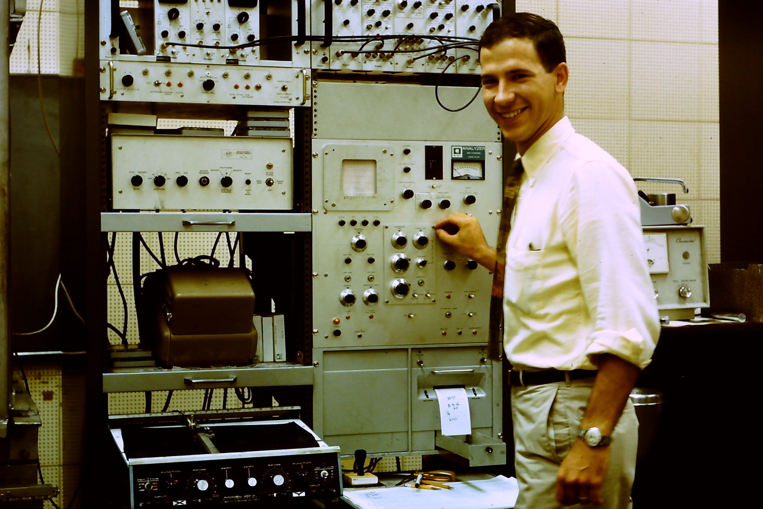 Gamma-Ray Scintillation Detector for Neutron Activation Analysis with ATF Forensic Laboratory Analyst (Dr. Dennis Bogdan) in Washington, D.C. (1966) NOTE: If redistributing, please be consistent with the Creative Commons Attribution-ShareAlike 4.0 License and the GNU Free Documentation License agreements. 35mm camera – scanned 35mm slide - Location = Washington, D.C. - Summer, 1966.